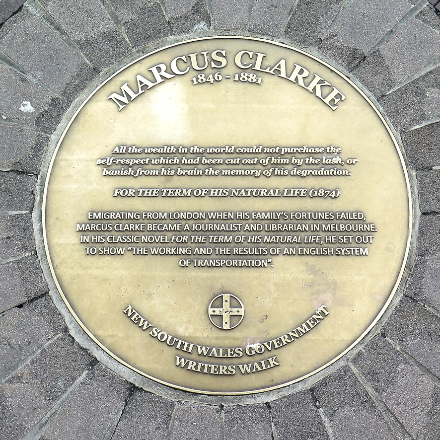 A plaque in the Sydney Writers Walk series at Circular Quay